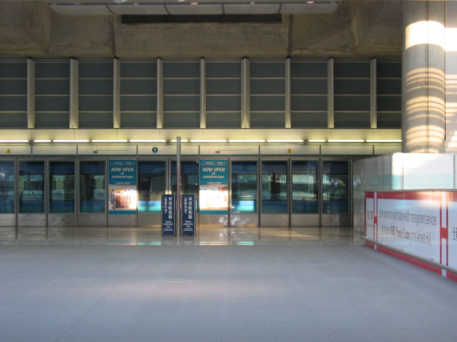 Airport MTR Station.